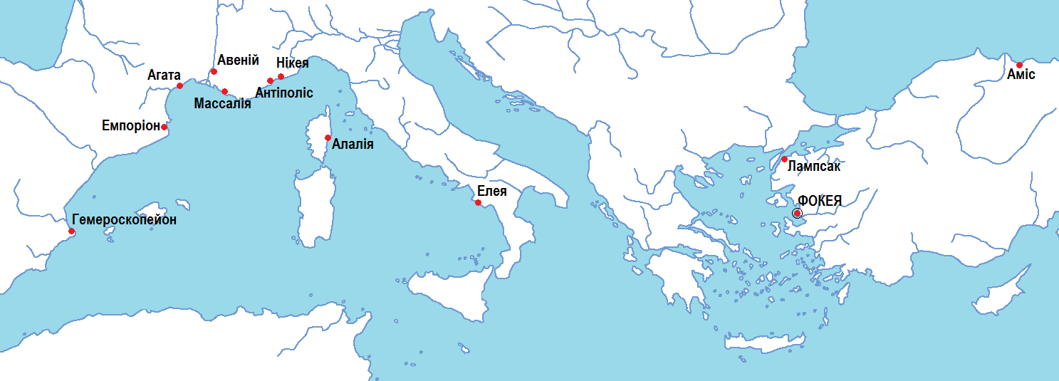 Map of the Phocean Colonies